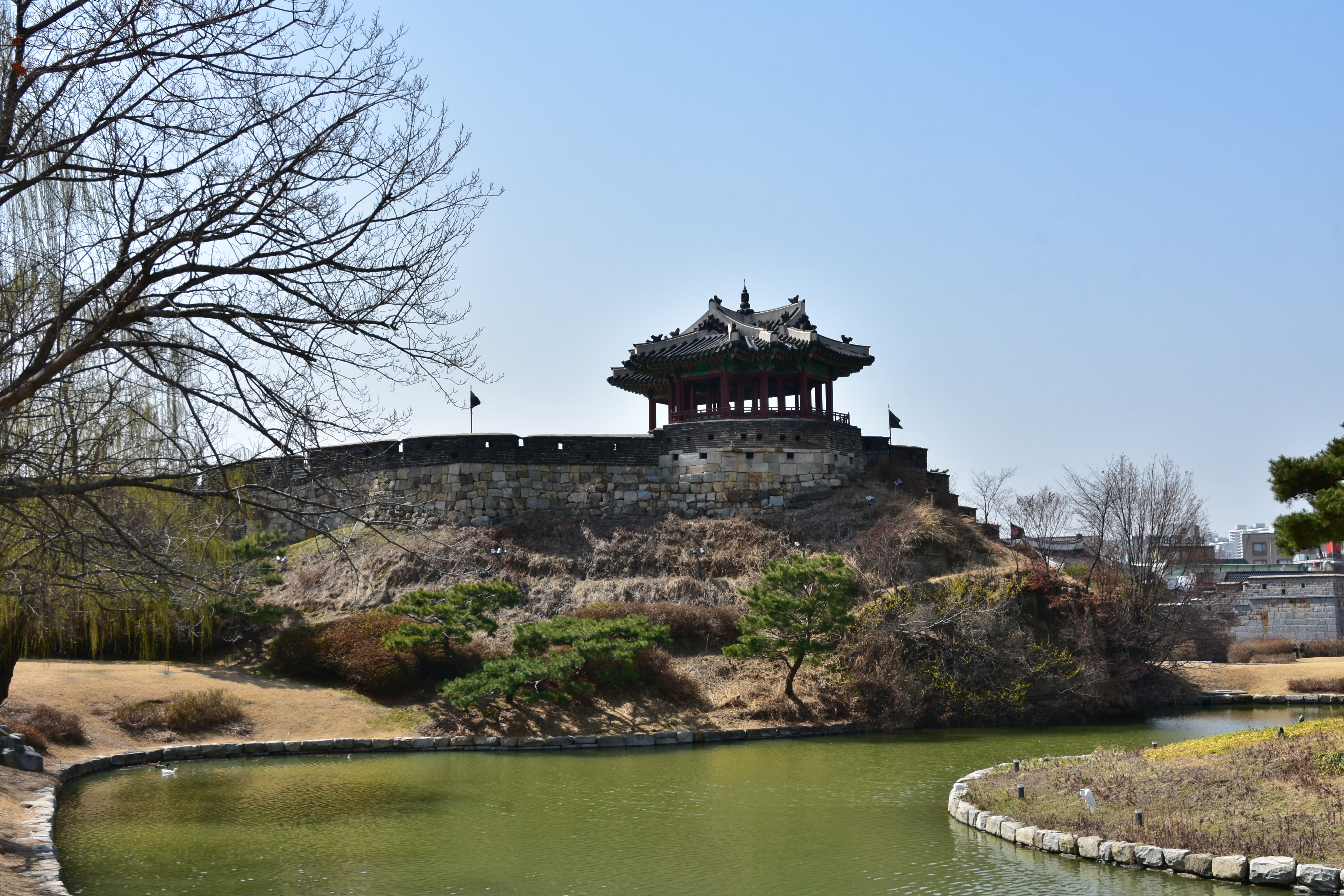 Fortifications of Suwon, late 18th century (29)